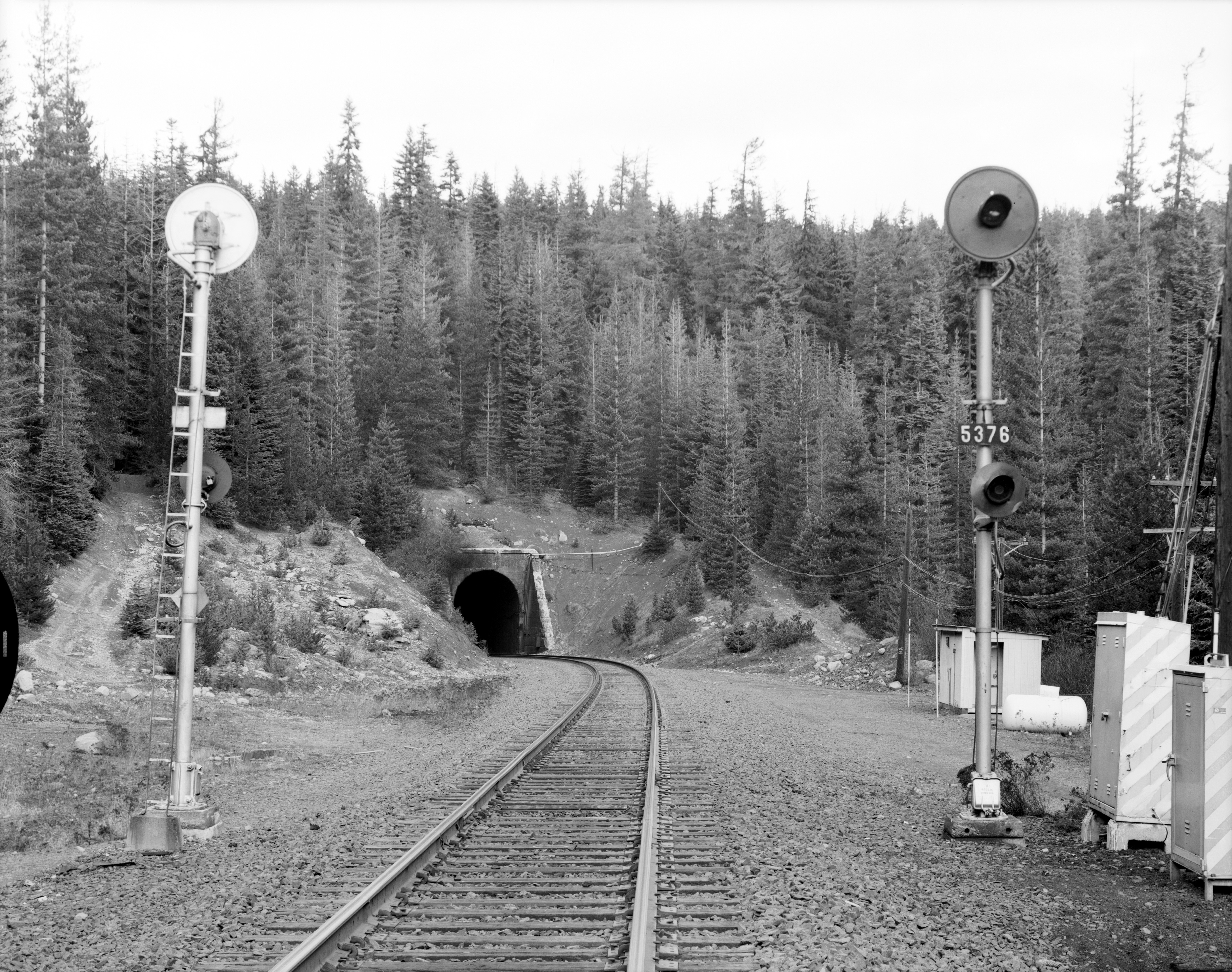 View of searchlight railroad signals at west portal of Tunnel 3 (Summit Tunnel), Natron Cutoff, Southern Pacific Railroad in Klamath County, Oregon. Tunnel built 1925. Photo no. OR-92-1. Photo cropped from original.